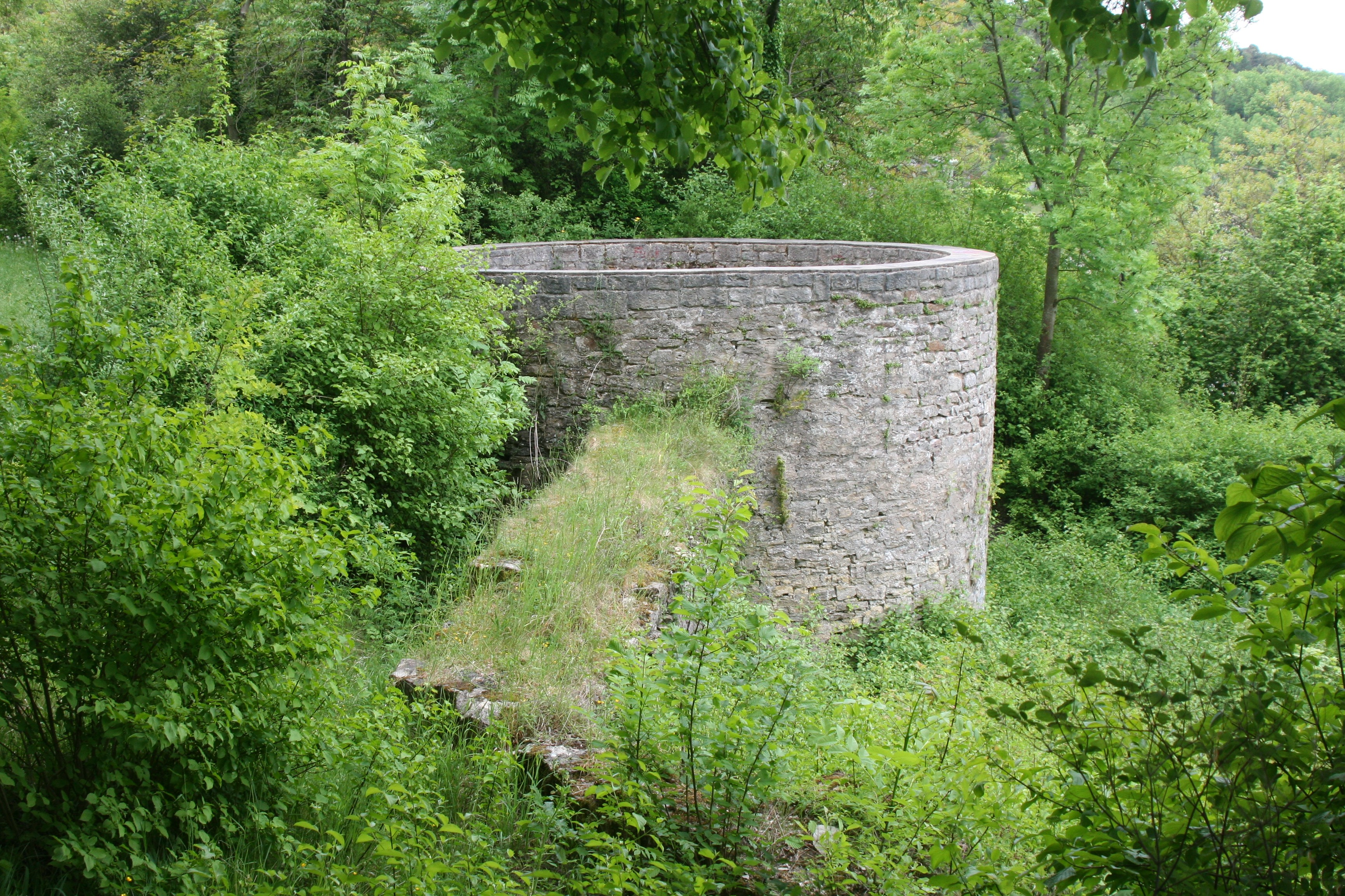 Castle ruin in Boxberg